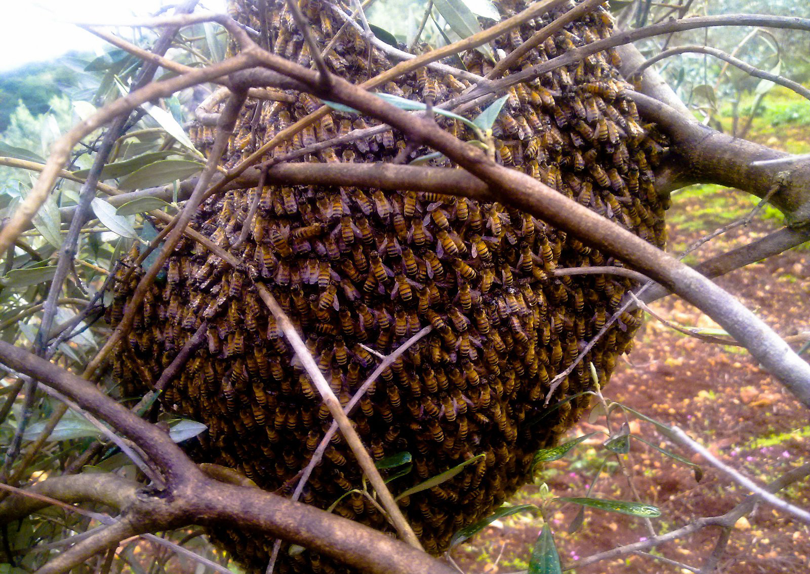 a temporary Beehive as a heart shape.